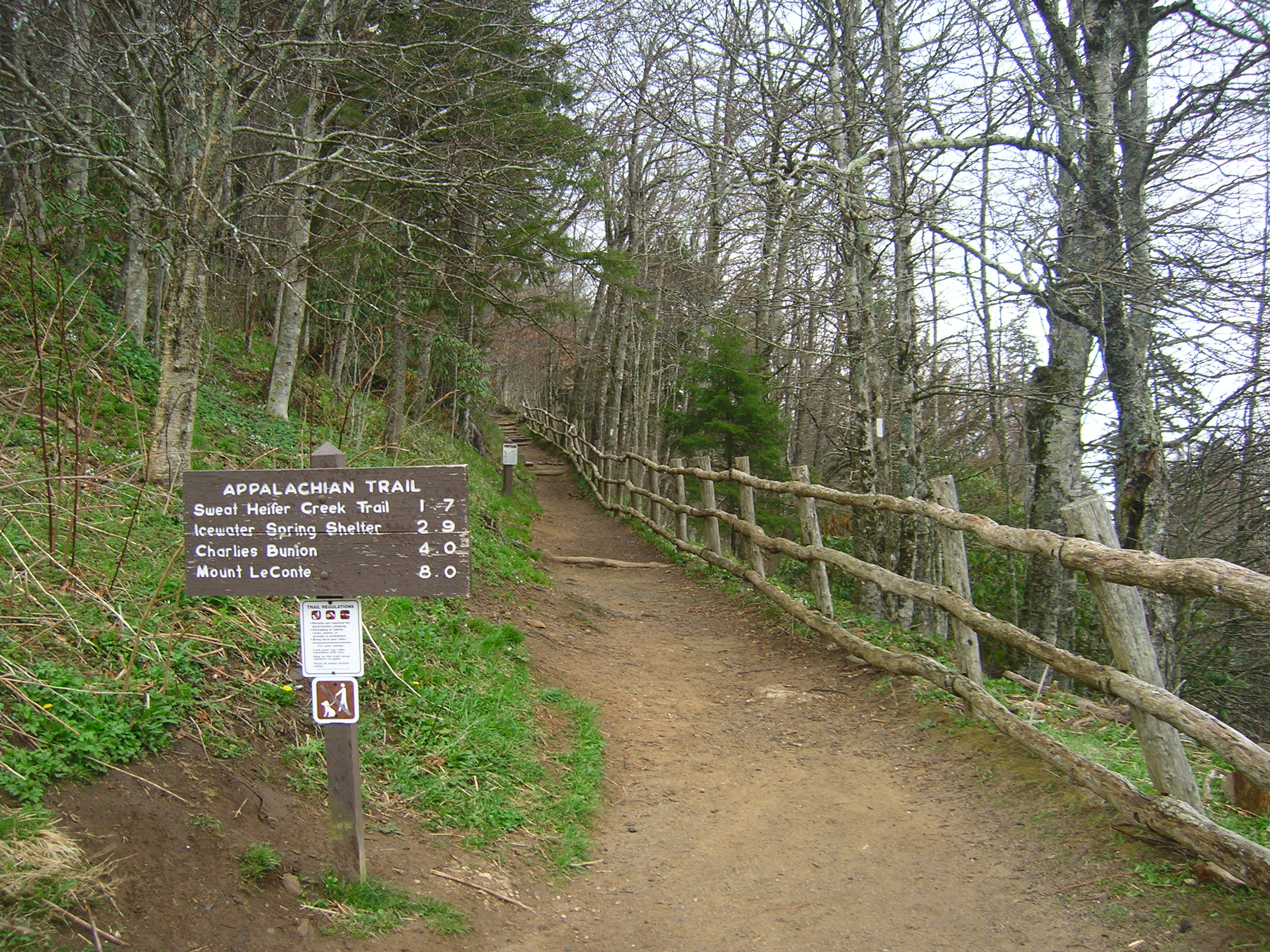 The Appalachian Trail continues on towards its Southern terminus in Northern Georgia here, at Newfound Gap, on the border of Tennessee and North Carolina. This is also the starting point for several popular day hikes in the Great Smoky Mountains National Park. Photo taken by myself, Scott Basford, on April 20, 2006.